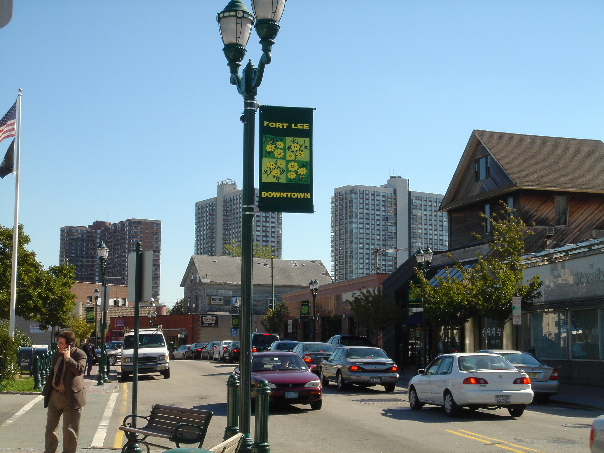 main street of Fort Lee in NJ